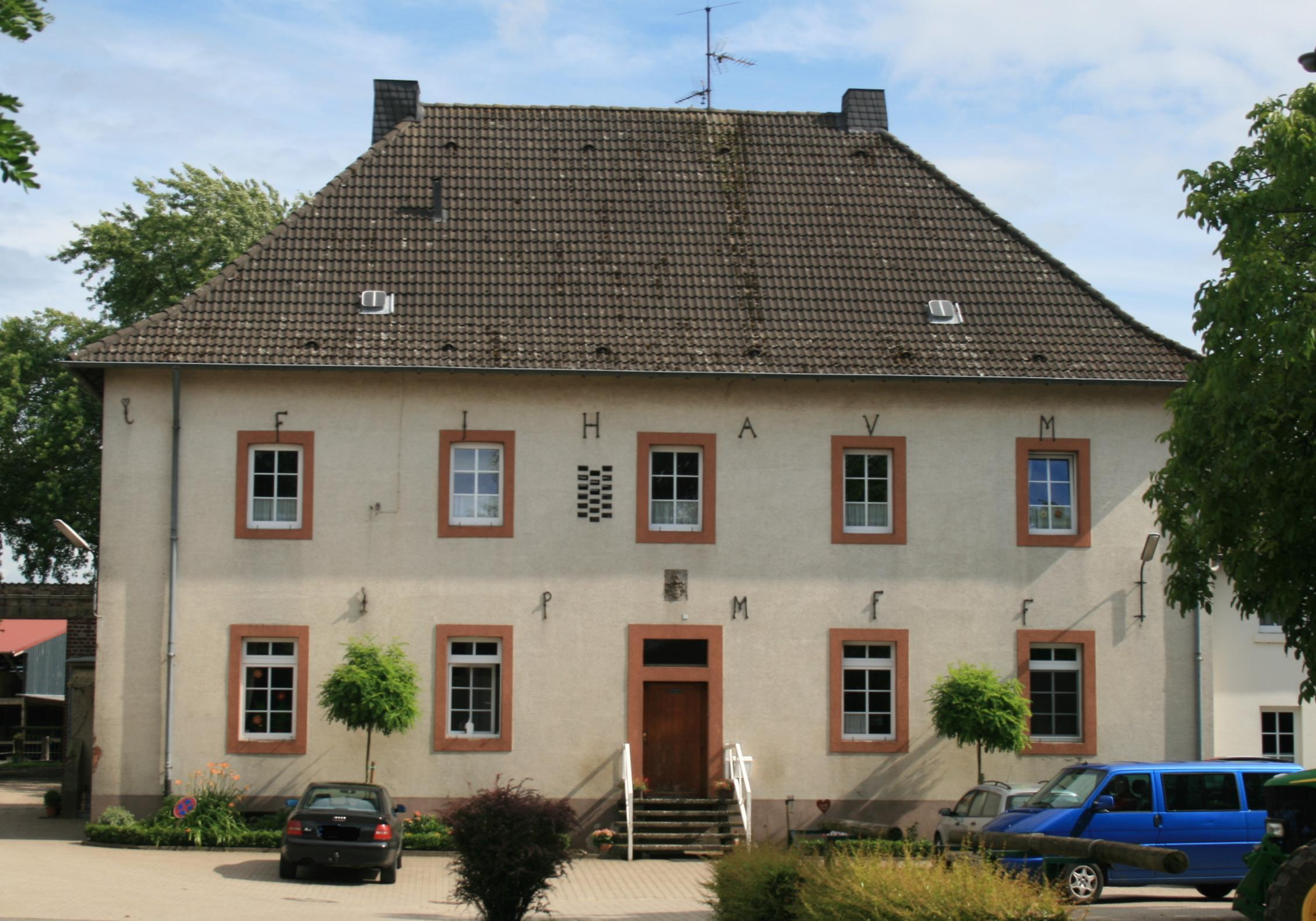 Cultural heritage monument No. 11 in Titz